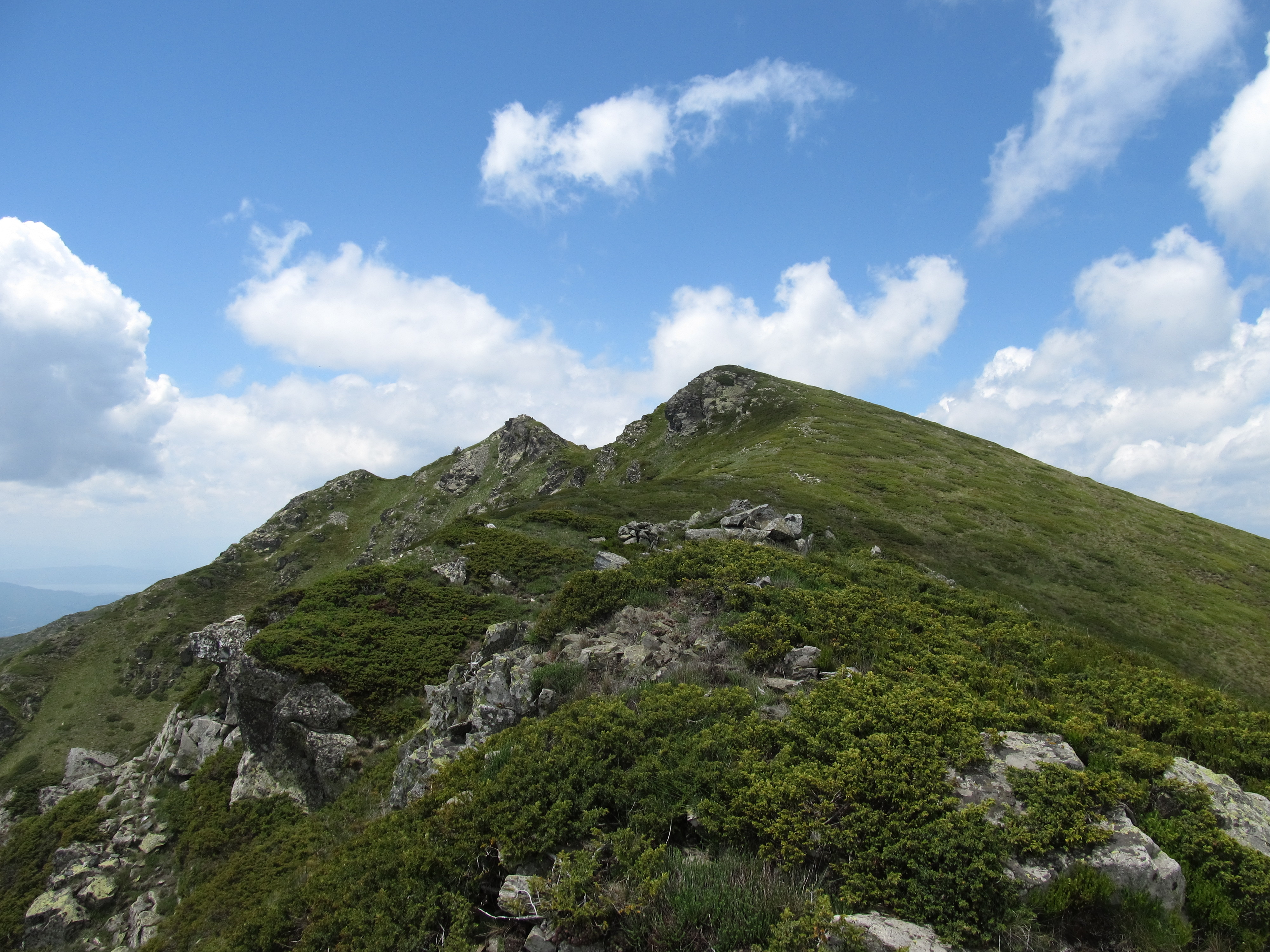 Punkova skala - a summit in Belasitsa mountain, Bulgaria